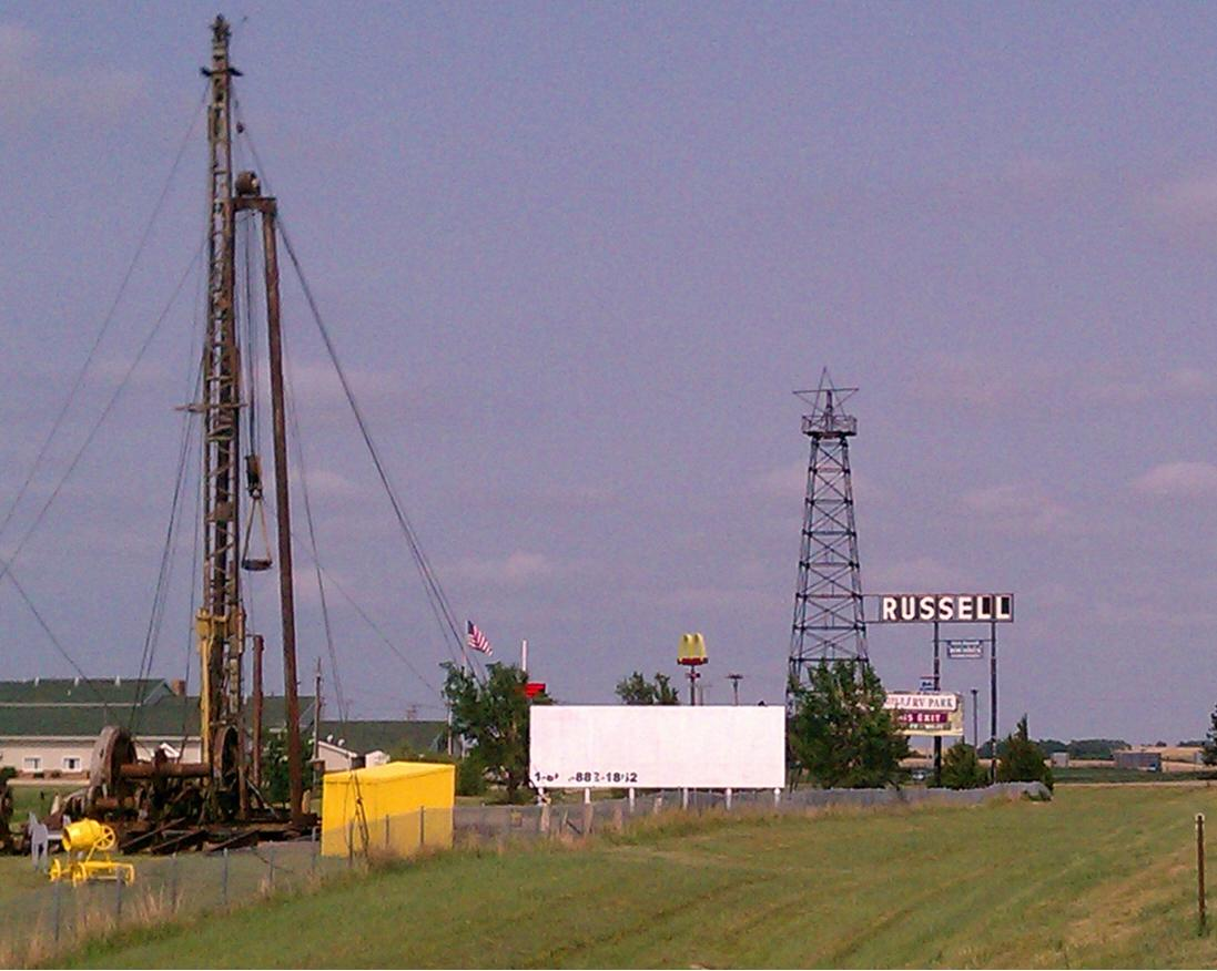 The Russell oil derrick sign off Kansas Exit 184 on Interstate 70